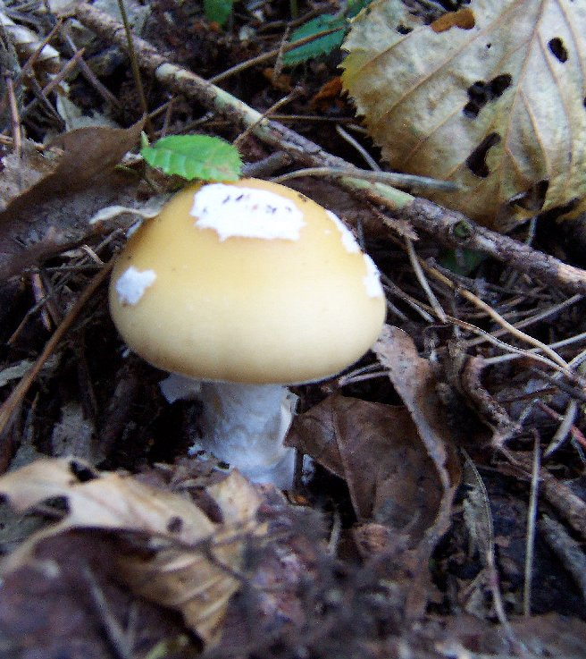 A young specimen of Amanita gemmata, the Gemmed mushroom. Photo taken September 9, 2006, in Königsforst near Cologne, Germany. Due to dry and warm weather in the preceding days, the color of the cap is less bright than the more typical corn yellow (seen e.g. in File:Amanita gemmata von hms.jpg). A false death cap would have an almost white cap under such conditions.